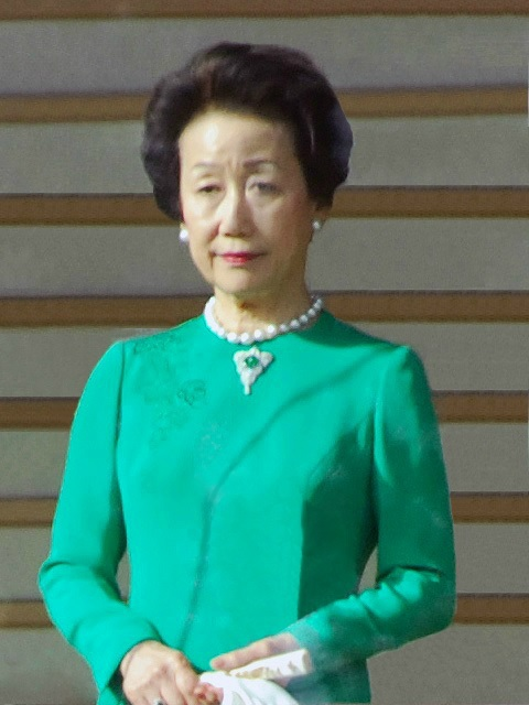 新年一般参賀における、常陸宮妃華子(Princess Hanako)